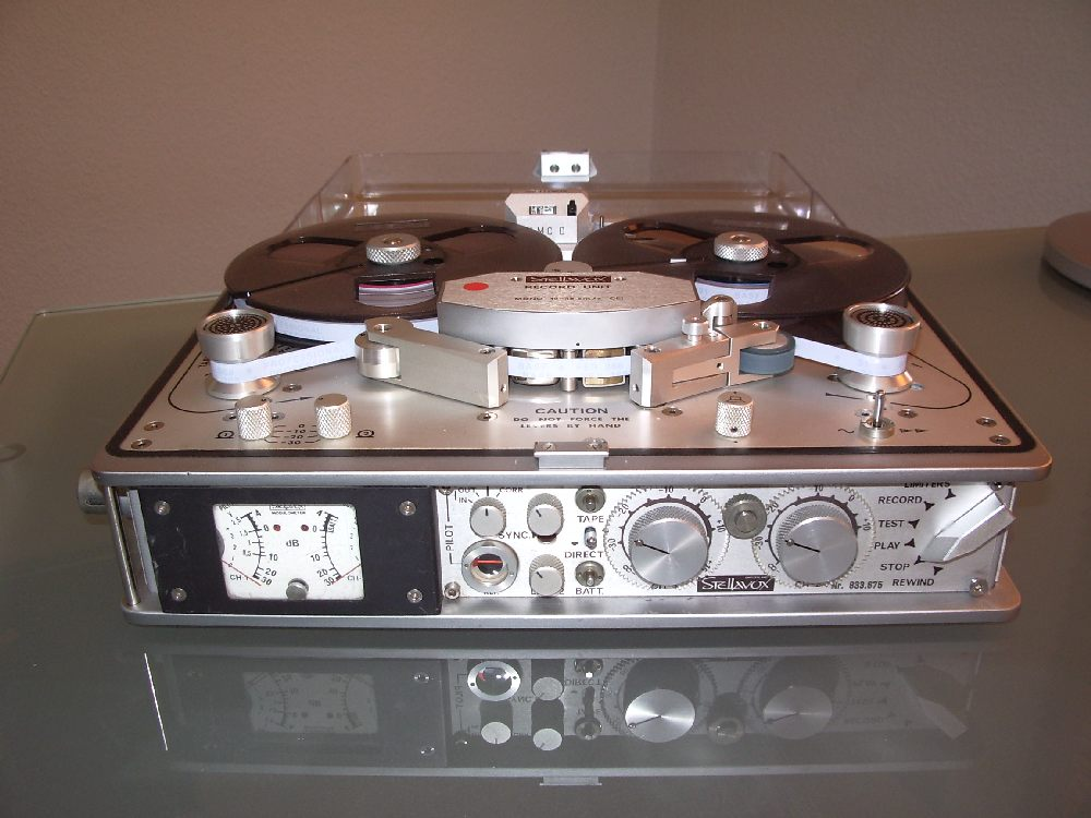 Stellavox SP 8